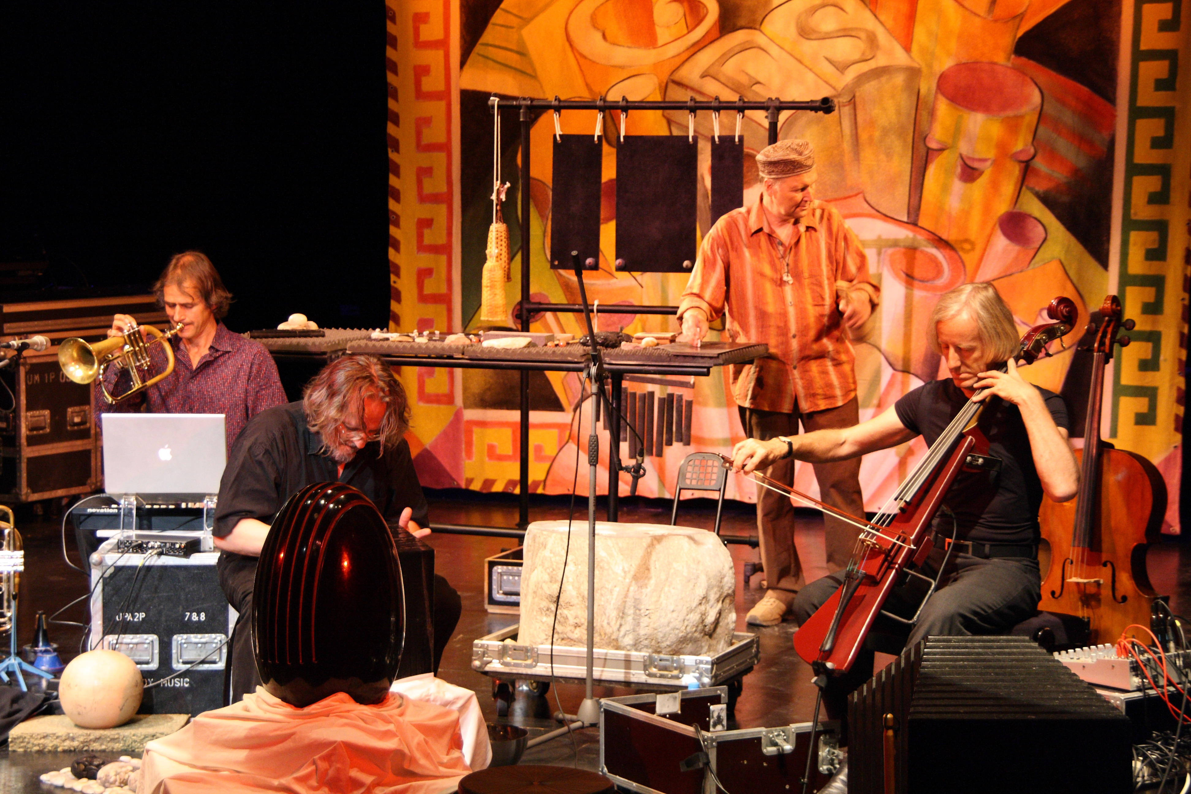 Trumpeter Markus Stockhausen with Klaus Feßmann, Manfred Kniel and Fried Dähn (Ensemble Klangstein) at the TFF-Festival, Rudolstadt